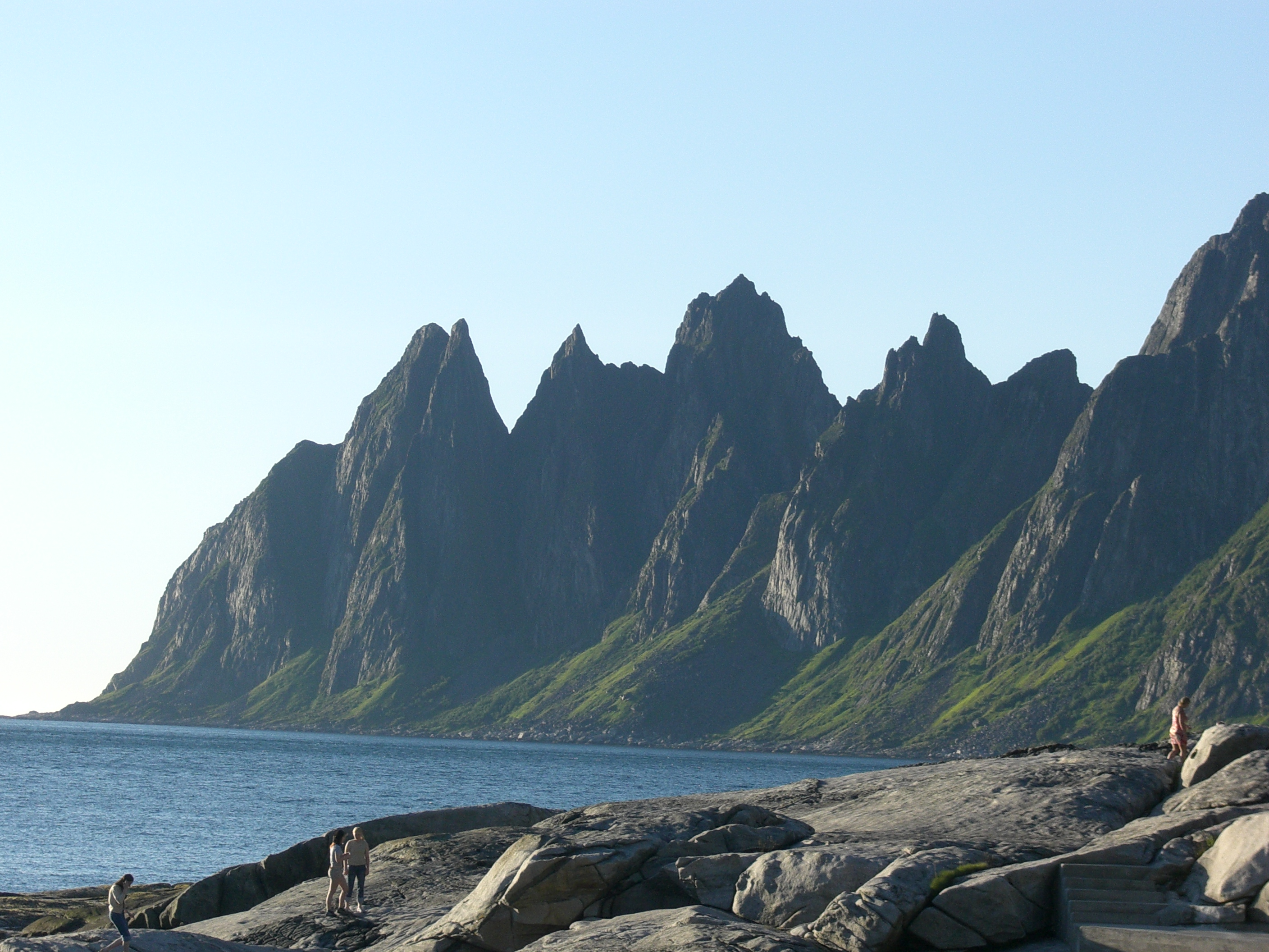 Ersfjorden and near mountains. Senja island, Norway